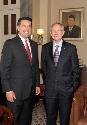 Senator Reid and Governor-Elect Brian Sandoval meet in Reid’s office to discuss important challenges facing Nevada.